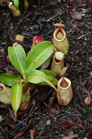 Nepenthes × hookeriana